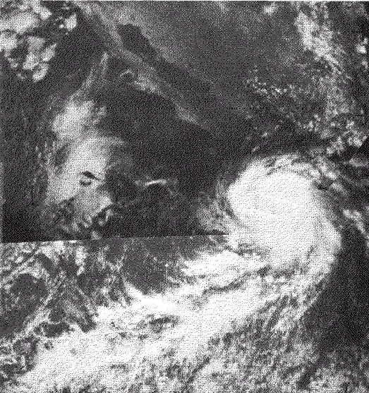 ESSA 8 picture, orbit 12,730, Sept. 25, 1971. Olivia is a strong hurricane centered 200 n.m.i. southwest of Manzanillo, Mexico